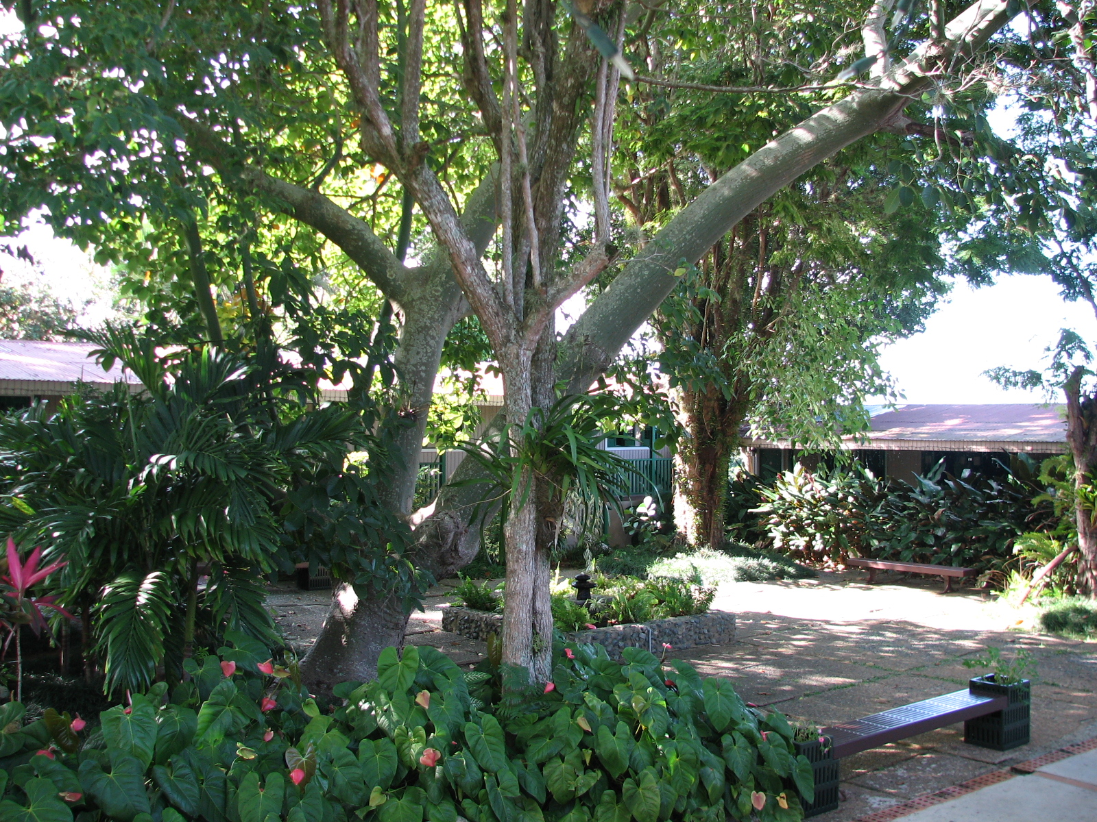 Hacienda Juanita courtyard, Maricao, Puerto Rico